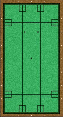 Balkline table showing standard balklines and anchor spaces